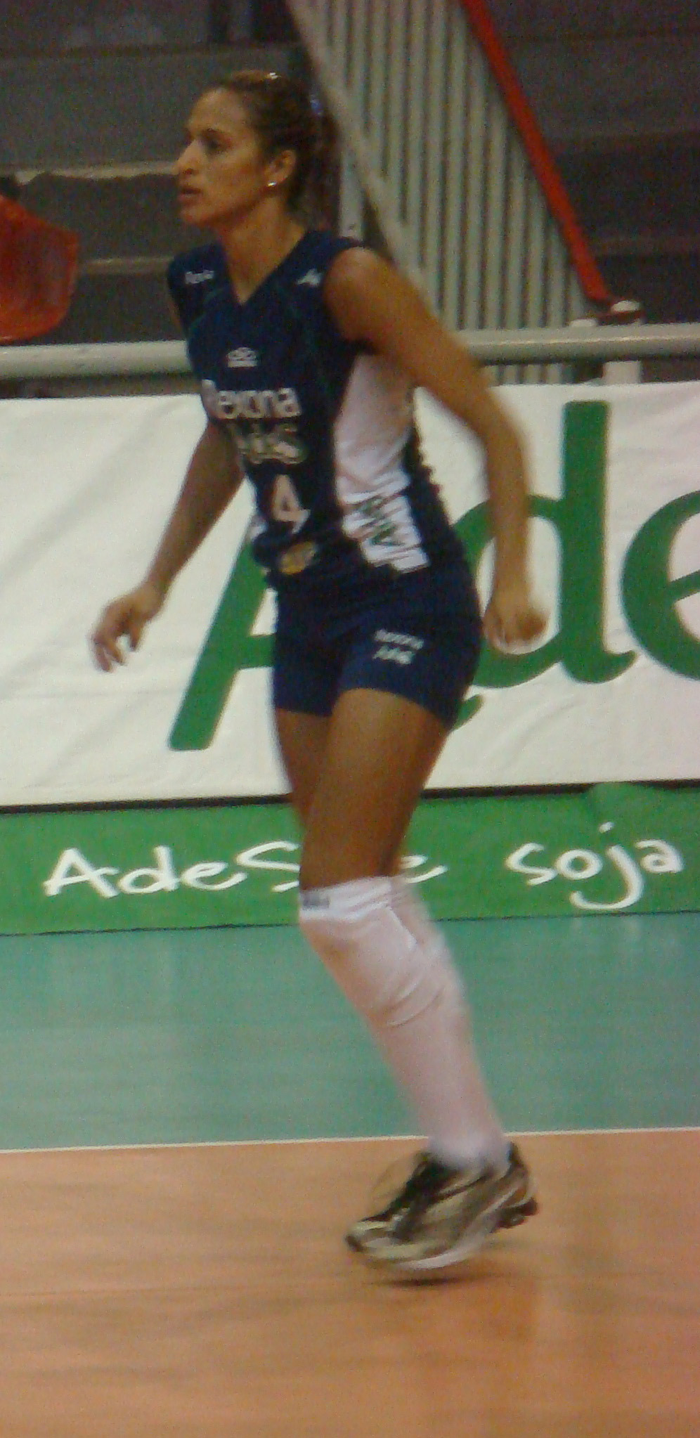 Dani Lins